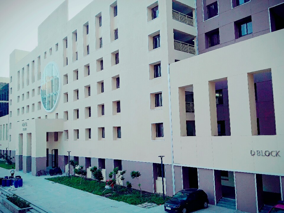 West side of the hostel building